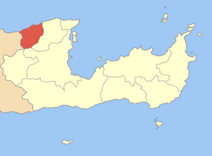 Locator map of Vrachasi community (Κοινότητα Βραχασίου) in Lasithi prefecture (Νομός Λασιθίου) in Greece.